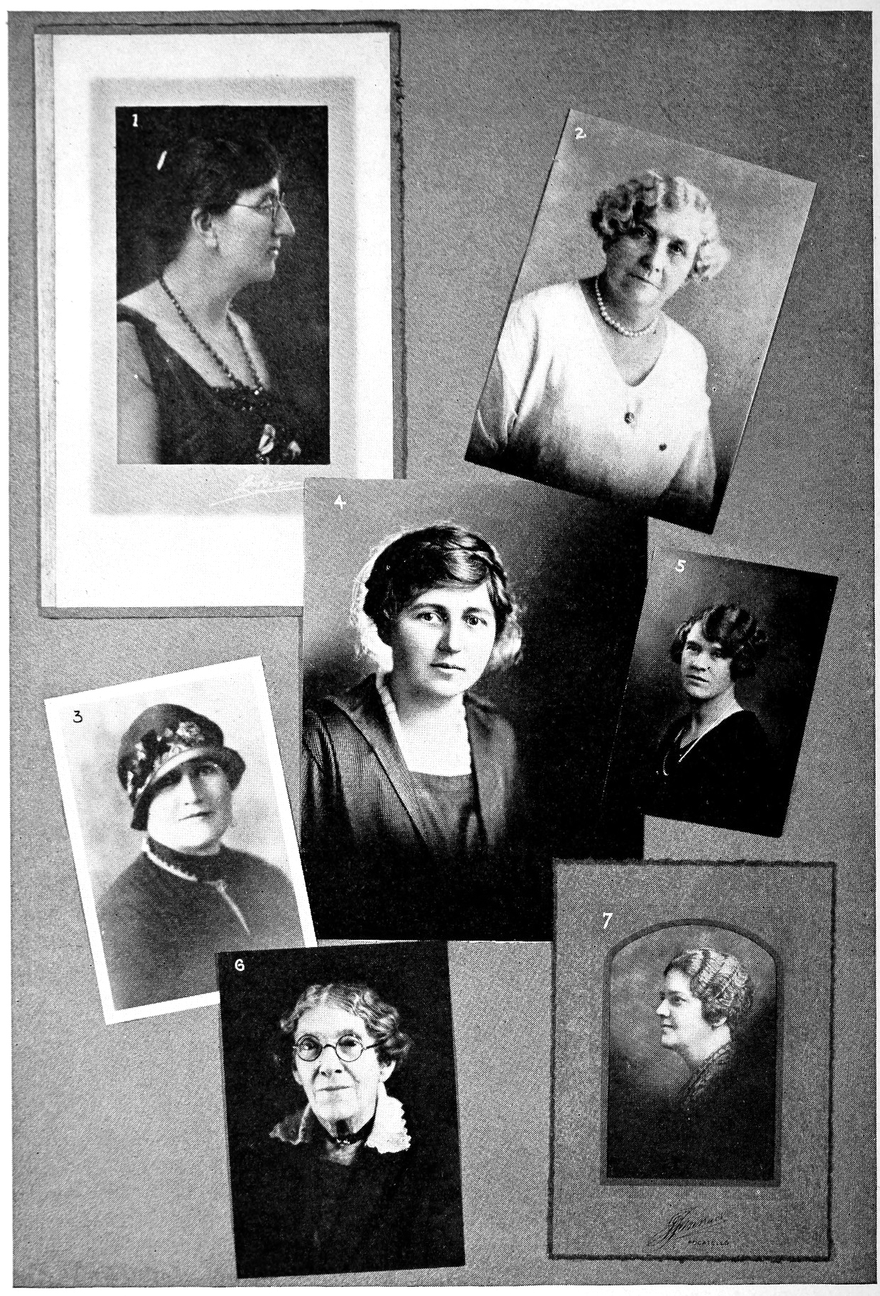 Women of the West; a series of biographical sketches of living eminent women in the eleven western states of the United States of America by Binheim, Max; Elvin, Charles A Publication date 1928 Topics Women Publisher Los Angeles, Calif., Publishers Press Collection uconn_libraries; americana Digitizing sponsor LYRASIS Members and Sloan Foundation Contributor University of Connecticut Libraries Language English 223 p. bports. c24 cm. Bookplateleaf 0003 Call number F595 .B59 Camera Canon EOS 5D Mark II Identifier womenofwestserie00binh Identifier-ark ark:/13960/t22c0sd8h Lccn 28021005 Ocr ABBYY FineReader 8.0 Page-progression lr Pages 284 Possible copyright status Copyright either not claimed or not renewed. Item is in the public domain. Ppi 500 Scandate 20130807152456 Scanner Scanningcenter boston Full catalog record MARCXML